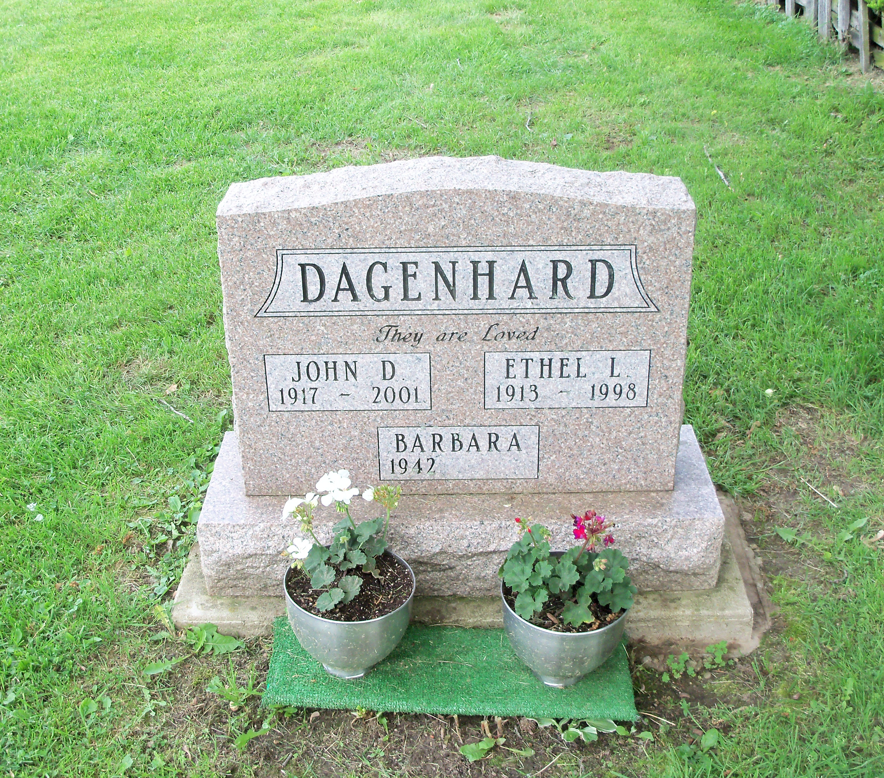 Tombstone in Magnolia Cemetery, Magnolia, Ohio of Major League Baseball pitcher John Dagenhard (born 1917-04-25, died 2001-07-16)